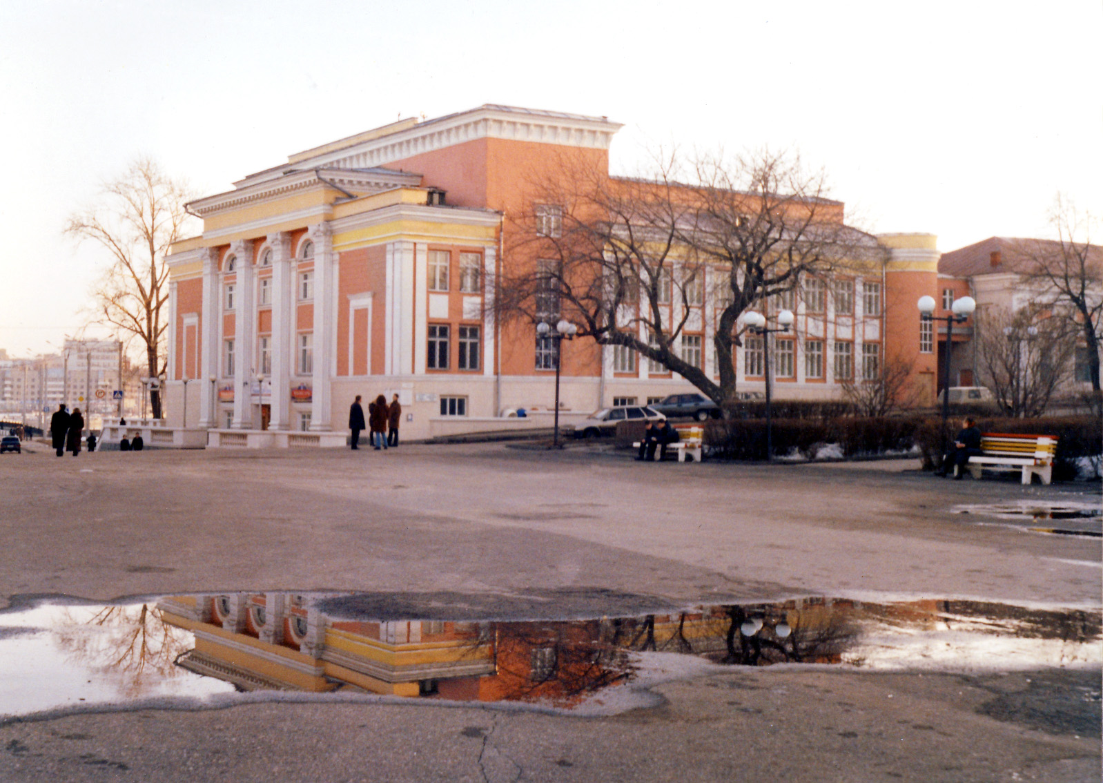 Exhibition Hall CHUVASHIA-EXPO